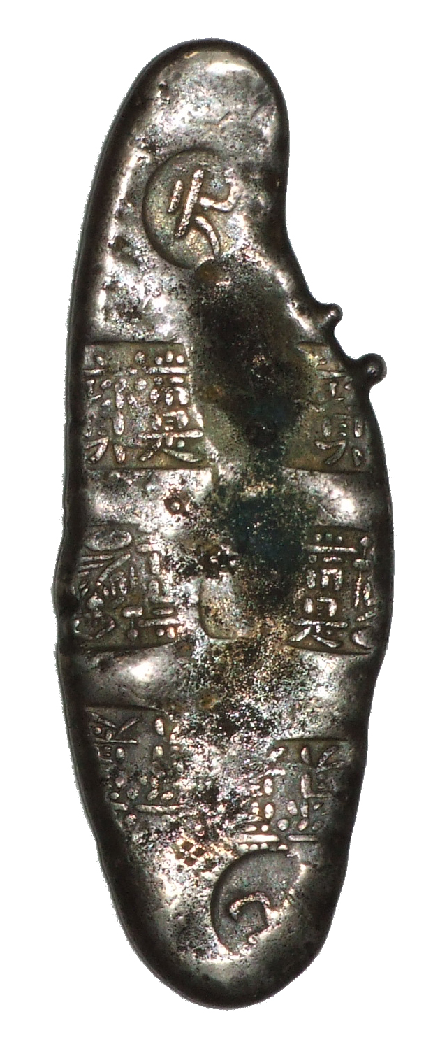 Genzi-chogin(silver)